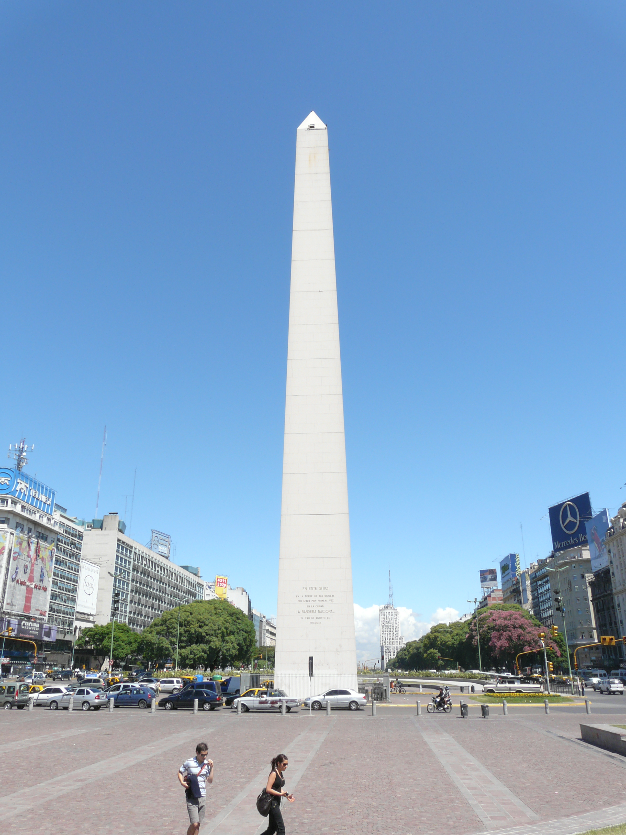 Obelisk of Buenos Aires